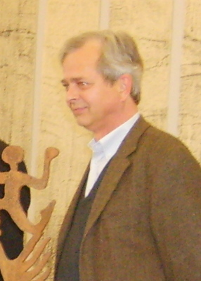 Andreas von Weizsäcker, at the opening ceremony of an exhibition in Mainz (Landtag)